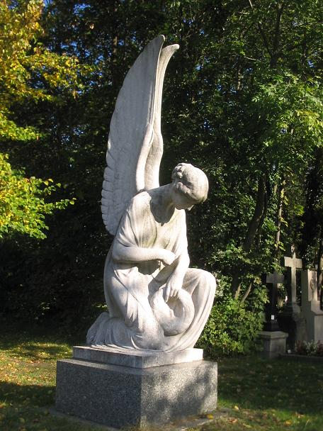 Angel, created by Josef Limburg (1874-1955). Graveyard „Alter Domfriedhof der St.-Hedwigsgemeinde“ in Berlin-Mitte.